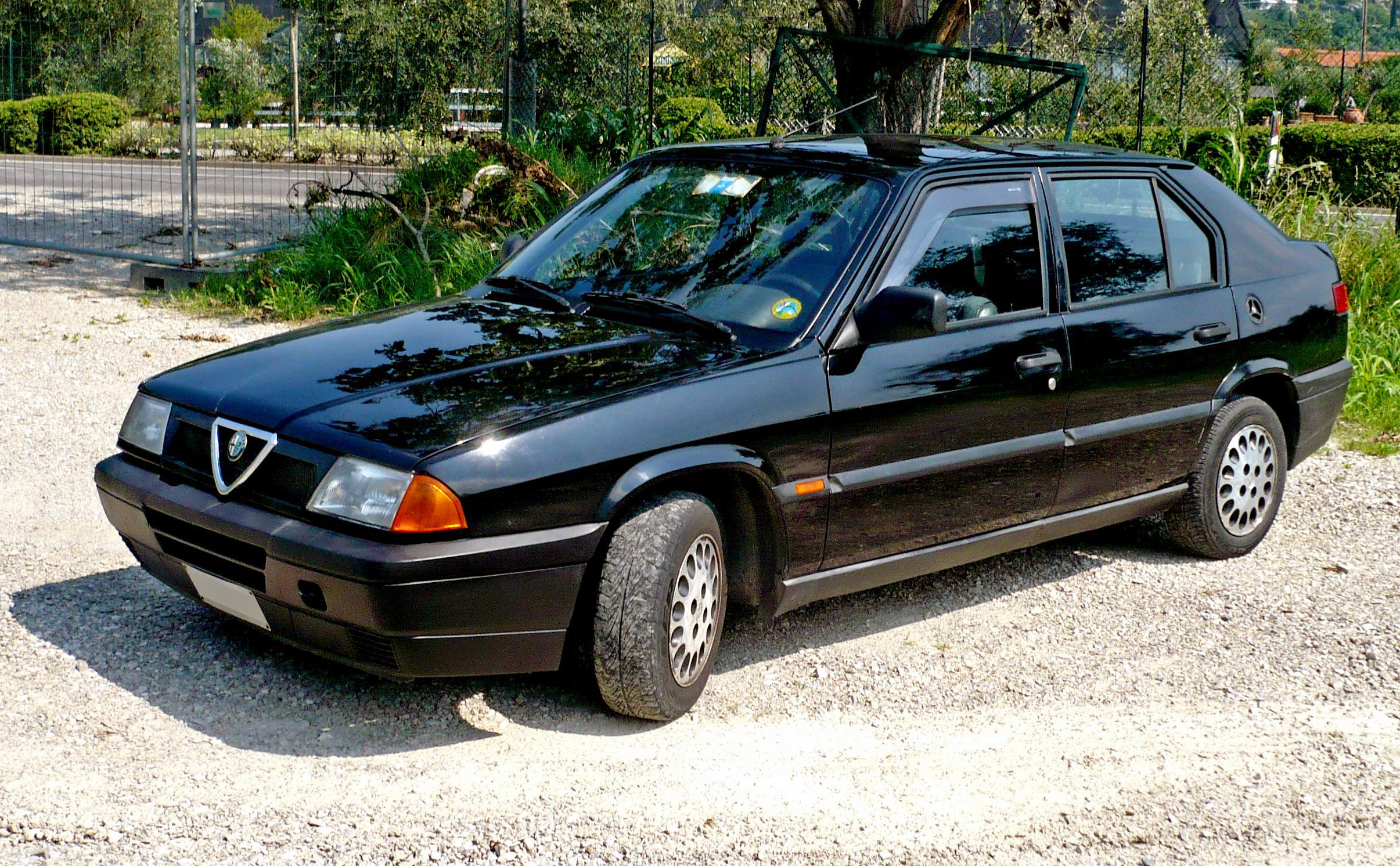 this is alfa romeo 33